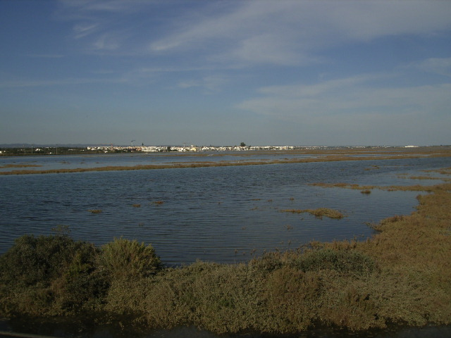 View to Santa Luzia (village near Tavira) from the estuary "ria Formosa", Algarve, Portugal